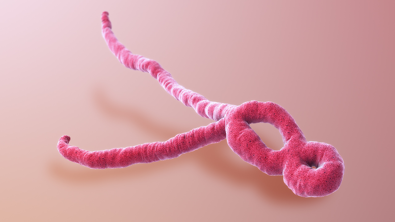 A 3D medical animation still of Ebola virus